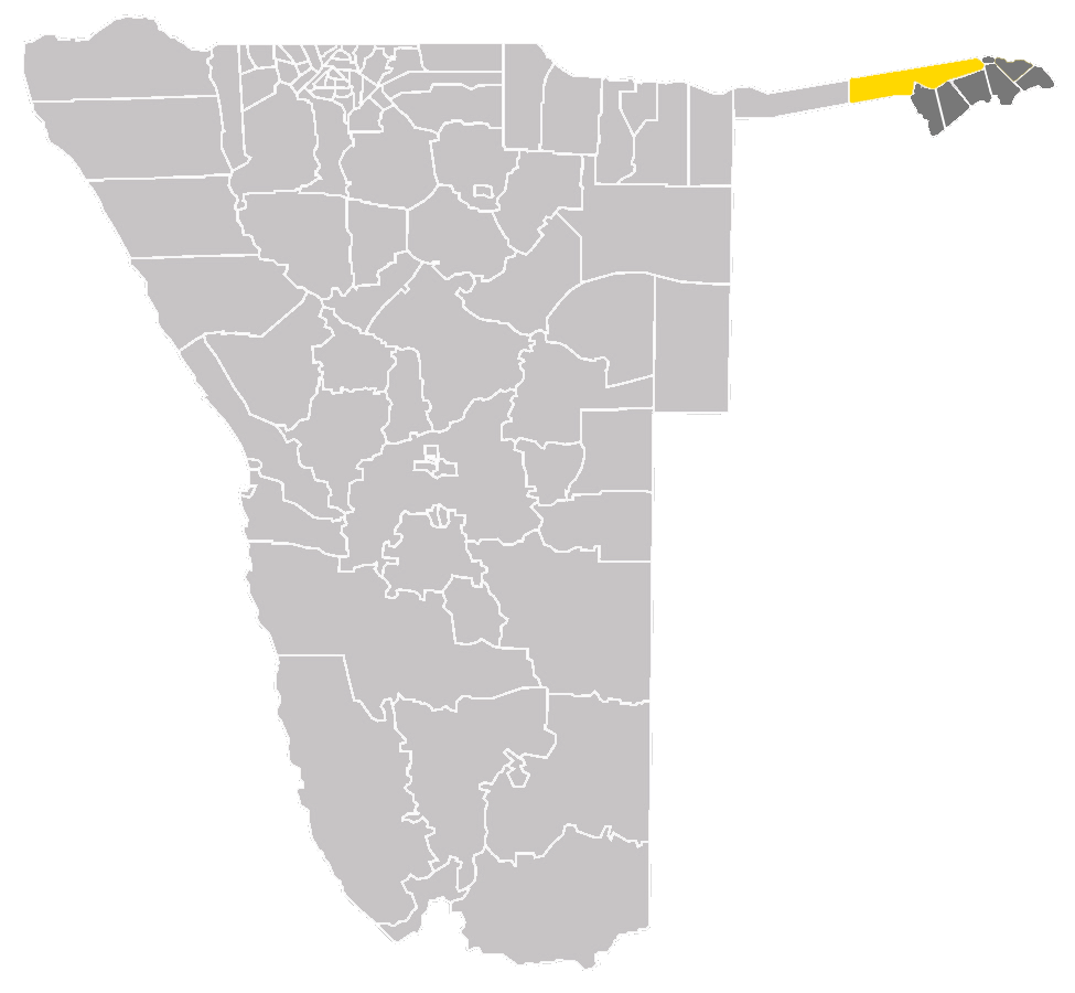 Map of the Kongola constituency within the Caprivi region, Namibia